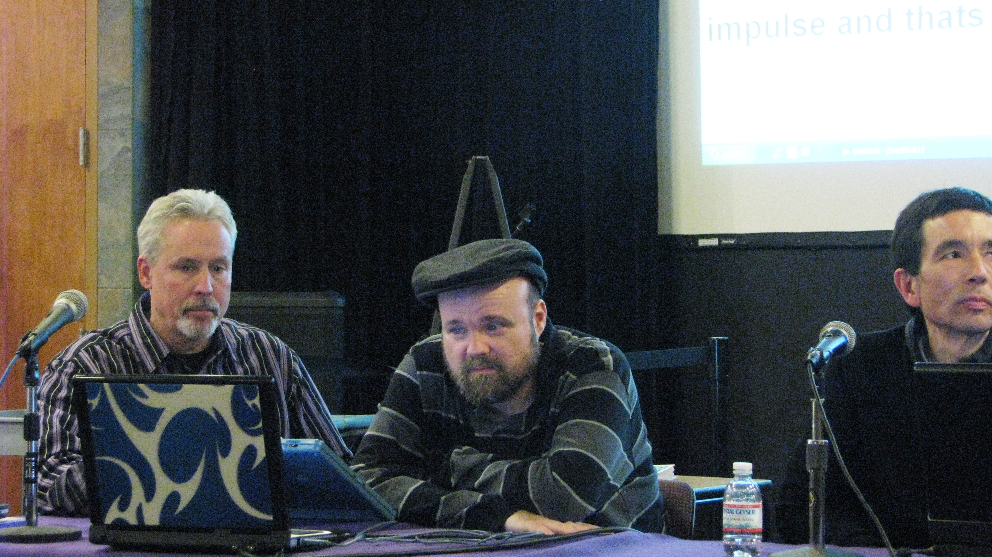 Tracy Thresher sharing his perspective Tracy, one of the stars of the new film Wretches & Jabberers. shared his views at the Q+A following the Cinema Arts screening of Wretches & Jabberers, part of ReelAbilities: The New York Disabilities Film Festival. He is accompanied by two assistants, Harvey Lavoy and Pascal Cheng.